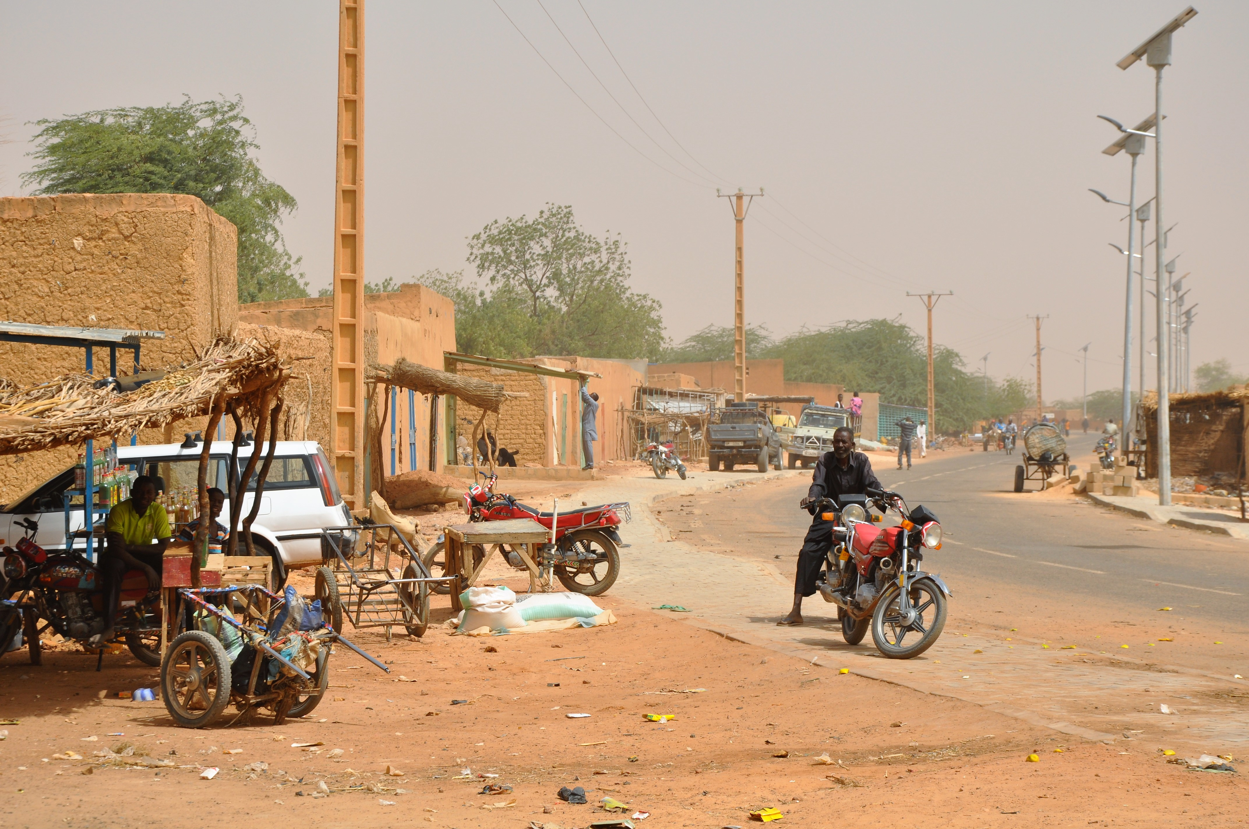 Scene in the main street of Filingué, Niger. Note the street lights with their solar panels.